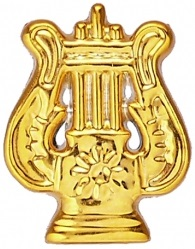 Music troops branch insignia of Ukraine